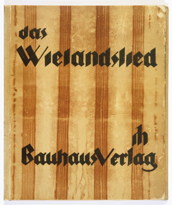 483871Inventar-Nr.: DK 39/99Künstler: Dorfner, Otto (1885 - 1955)Gegenstand: Mappe für Gerhard Marcks: Zehn Holzschnitte zum Wielandslied der älteren Edda. München, Weimar, 1923Datierung:Technik: Halbpergament, KleisterpapierMaterial: Pargament, KleisterpapierAbmessungen allgemein: 35,7 x 29,6 x 1,4 cm